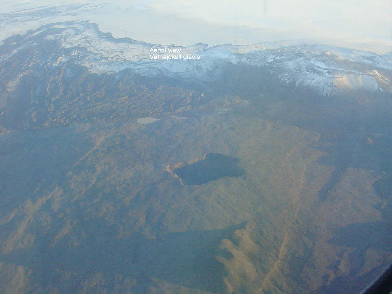 Kárahnjúkar Hydroelectric Project. Installed capacity 690 MW The Kárahnjúkar dam has a maximum height of 193 m is of 730m length and was constructed using 8.5 million m3 of fill materials. The Desjará dam is 60 m in height and of 1100m length. Sauðárdals dam. Maximum dam height 25 m. Dam length 1100 m accessed 8. May 2009. Areal view of the north edge of the glacier Vatnajökull.